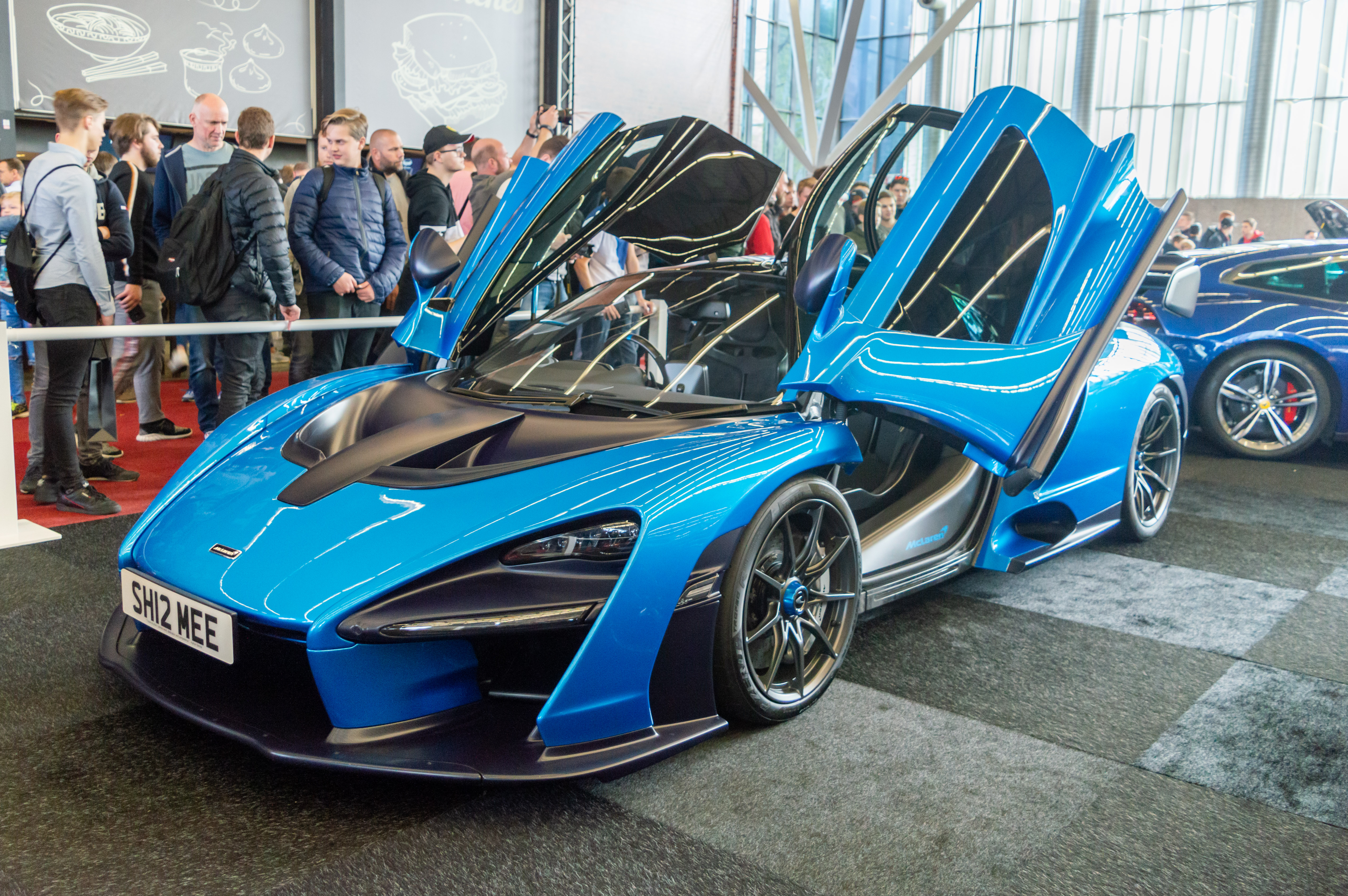 McLaren Senna owned by Tim Burton or "Shmee150" at the 2019 International Amsterdam Motor Show.